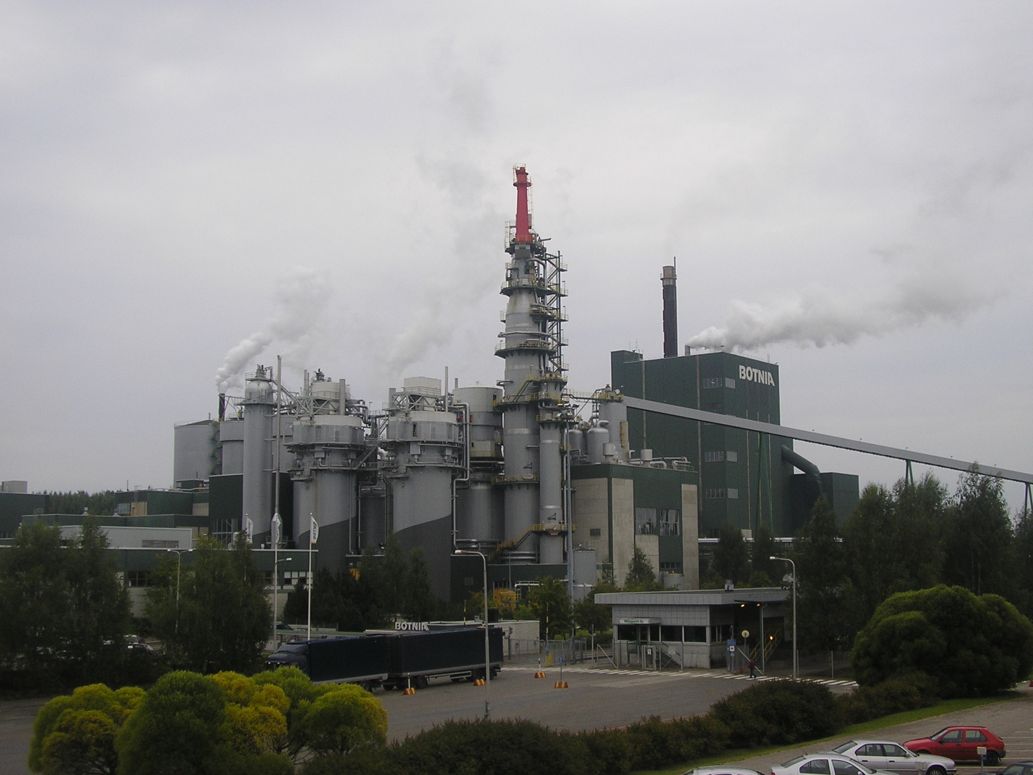 Äänekoski pulp mill